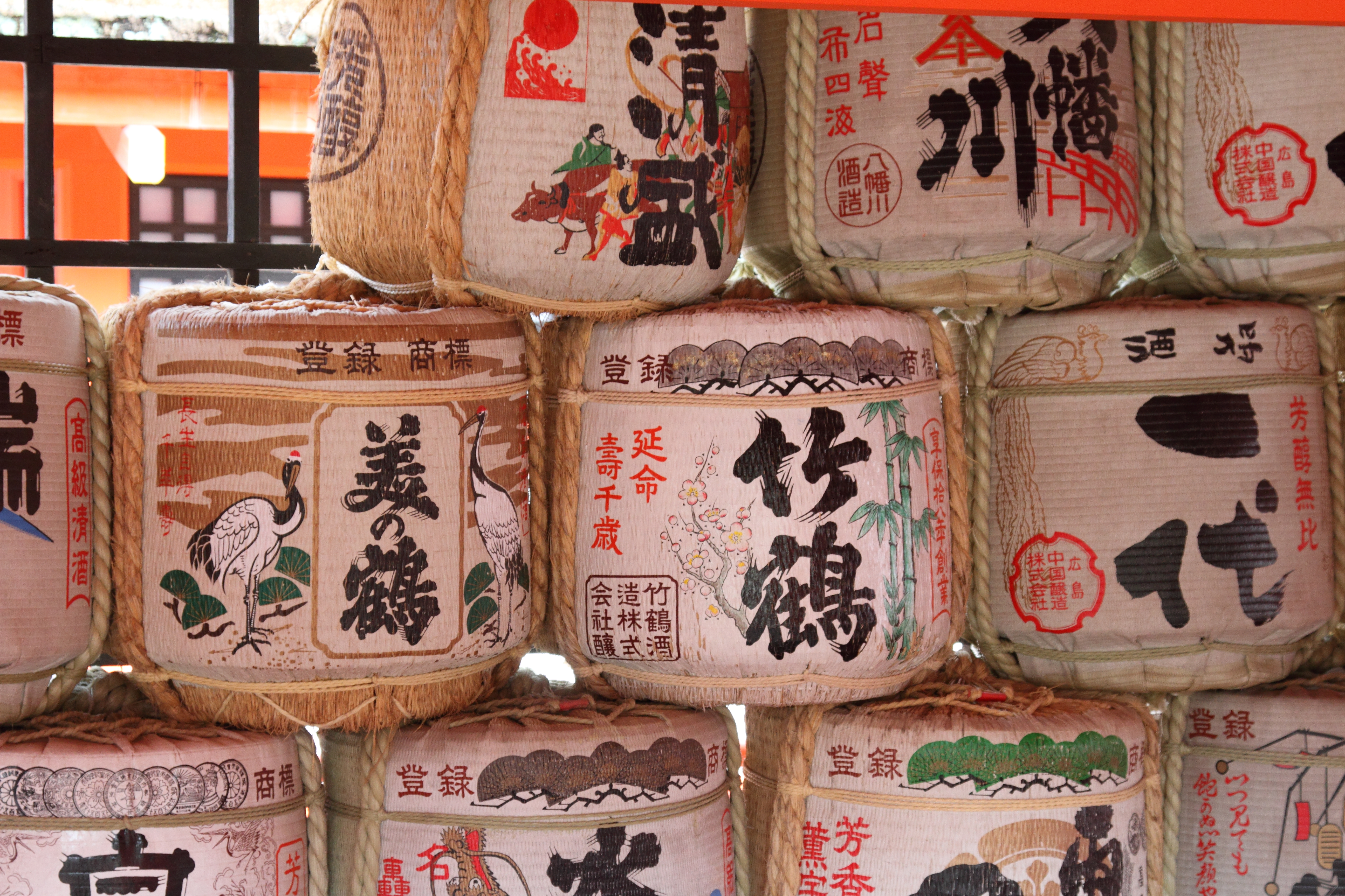 Miyajima 1